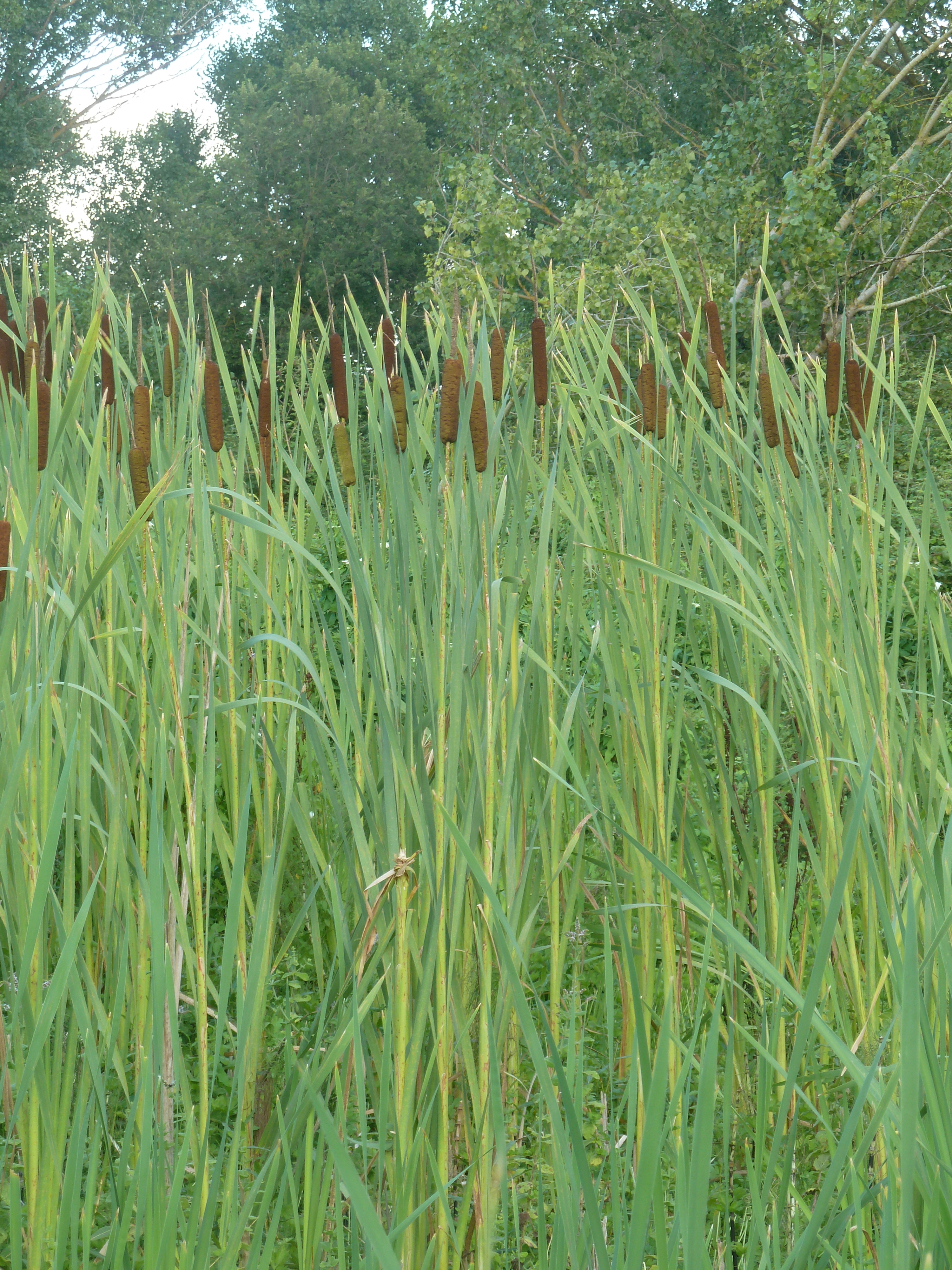 Flora. Parco della Caffarella, Rome, Italy. July - Typha latifolia